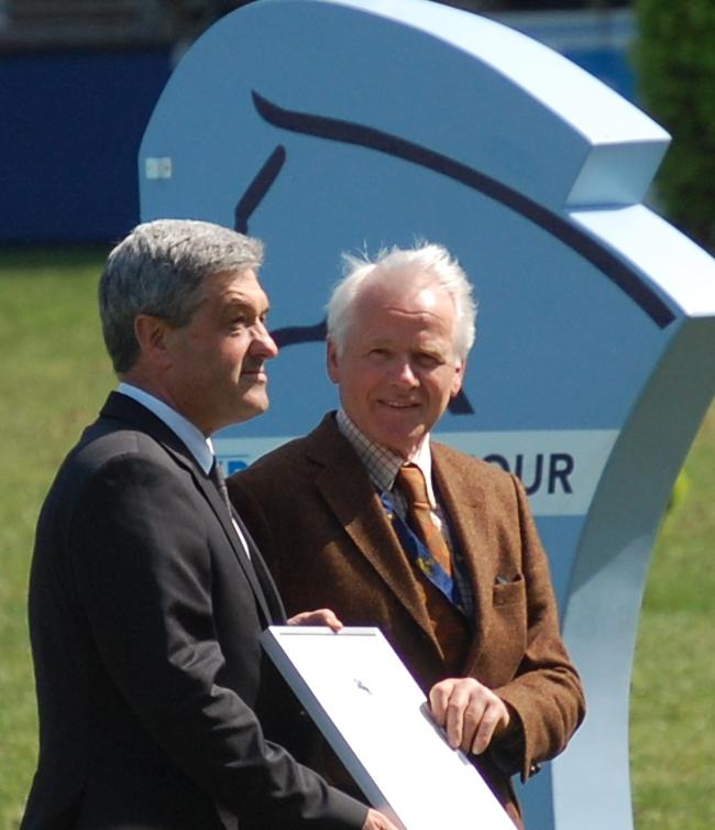 from left to right: Peter Hofmann (Chairman of the German show jumping committee), Achaz von Buchwalt (former successful show jumper)